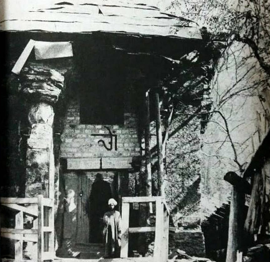 Sharada temple photographed by Sir Aurel Stein in 1893